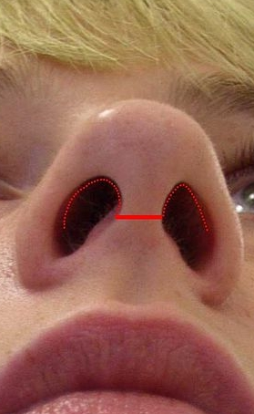 Open Rhinoplasty, external approach